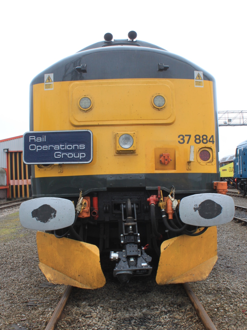 Europhoenix class 37 diesel 37884 has modified coupling arrangements for the Rail Operations Group to allow them to haul electric multiple unit vehicles over non-electrified tracks without a 'converter' vehicle for the brake systems.